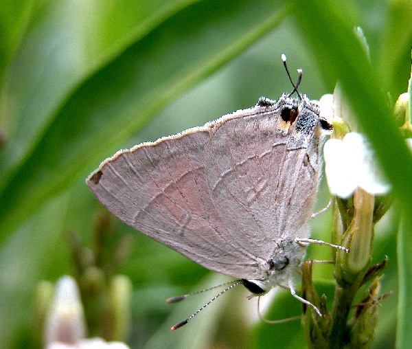 Common Red Flash, Rapala iarbus in Bangalore